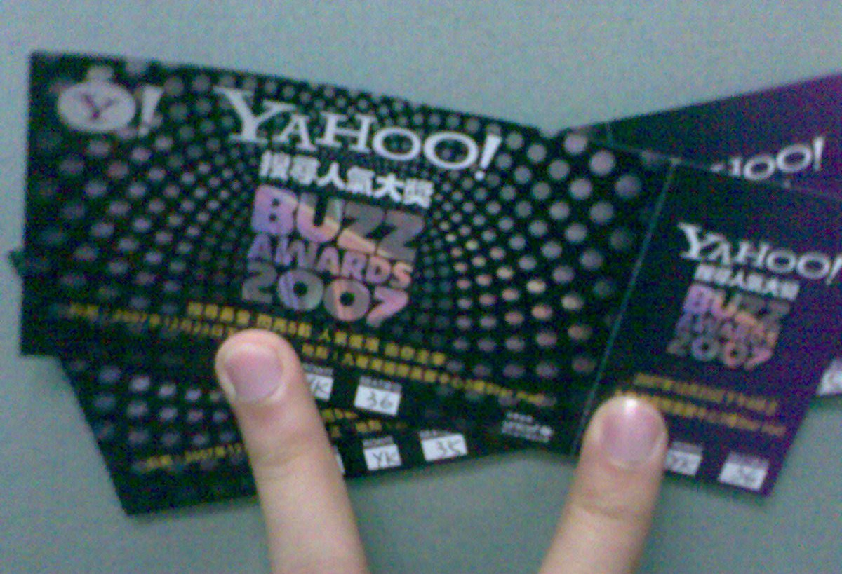 Yahoo! Hong Kong Buzz Awards 2007 tickets